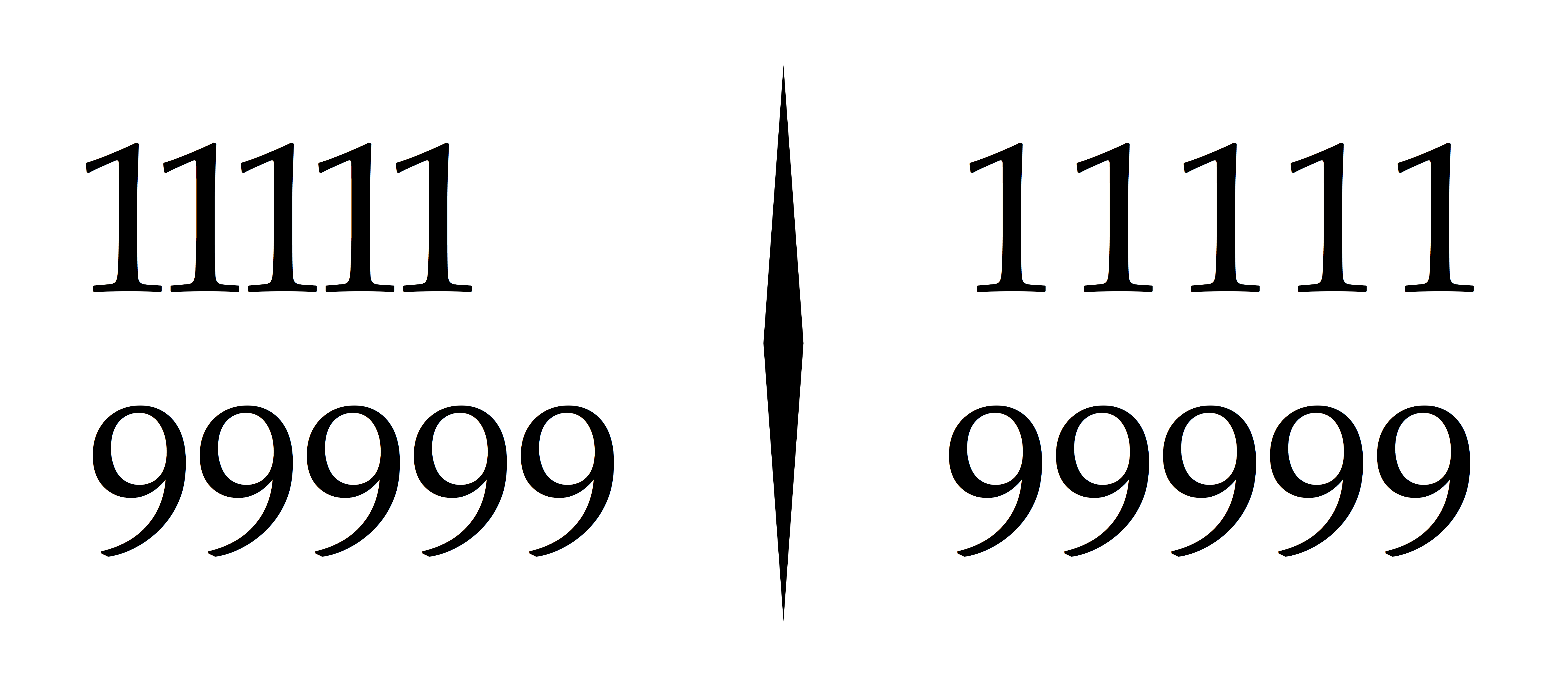 Numbers can be typeset in two ways. They can be set proportionally, with the width of the character depending on its shape (1 narrow, 9 wide), which means less empty space on the page and better-flowing text. Or all numerals can have the same width, ensuring that lines of numbers line up together one on top of another. This is essential for typesetting sums and price lists. This picture shows number glyphs from the font Palatino, with proportional on the left. Both sets are lining figures, numerals which are the same height as upper-case letters.